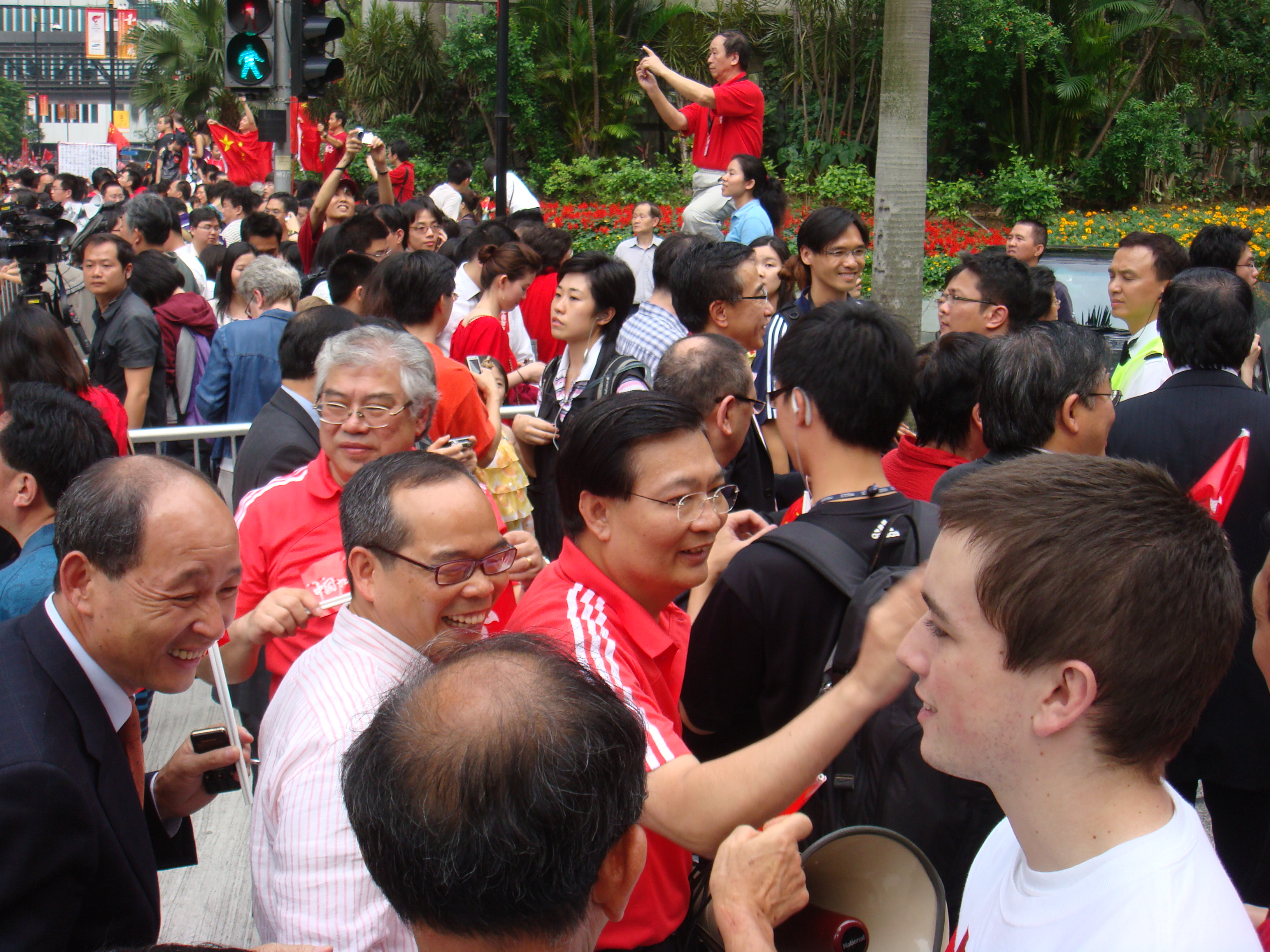 2008 Summer Olympics Torch in the Legislative Council, Central, Hong Kong.